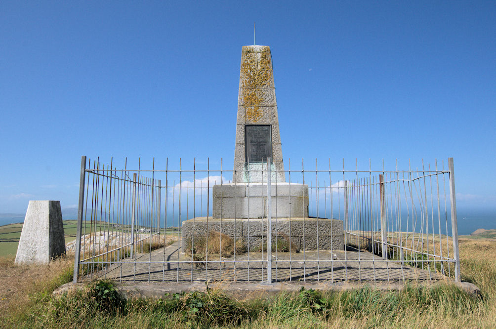 Memorial to Sir William Thomas, High Sheriff of Anglesey, built in 1897 on top of Mynydd y Garn, Isle of Anglesey, Wales